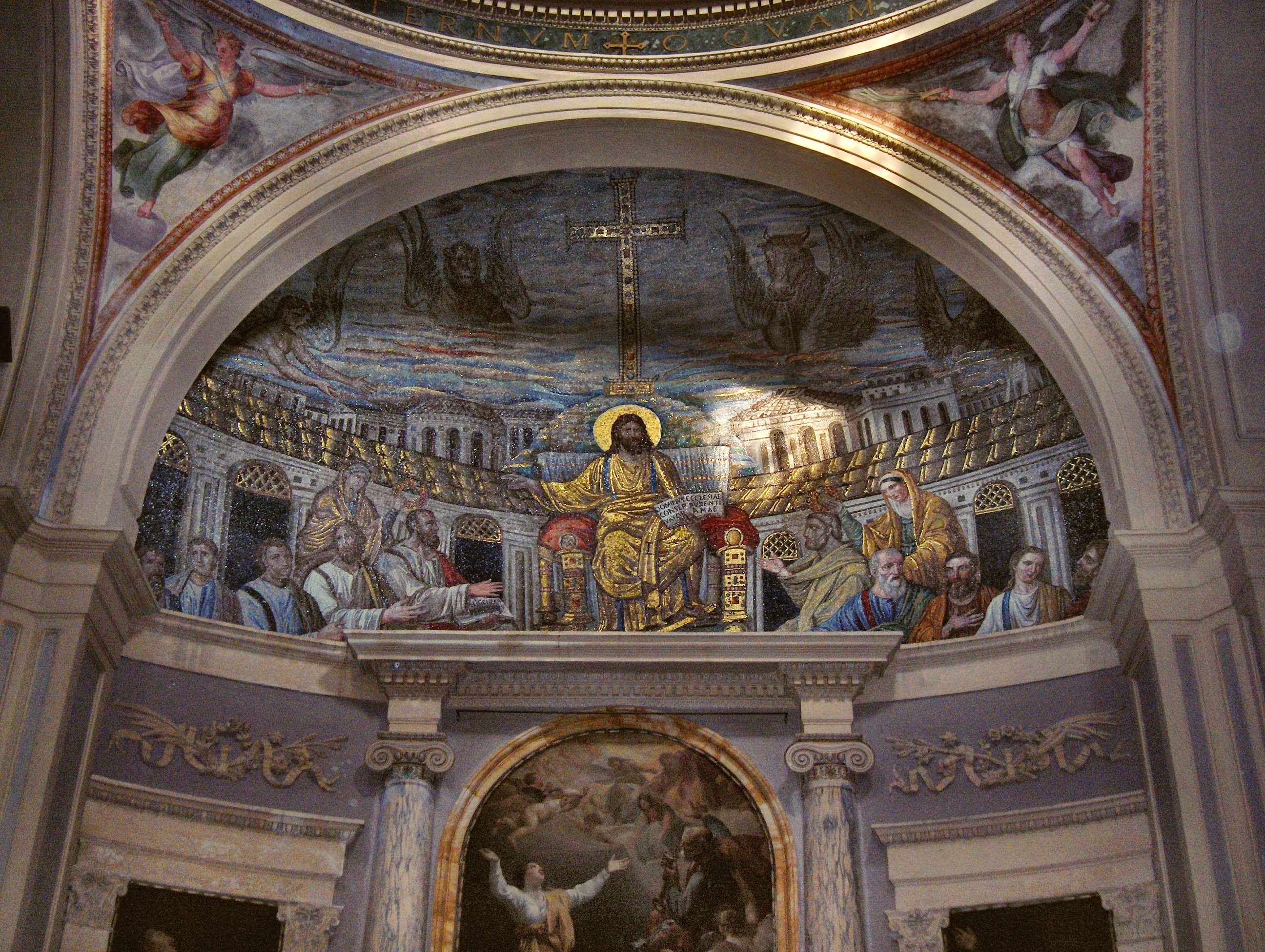 Mosaic (end 4th century) in the apse of the church of Santa Pudenziana, Rome, Italy